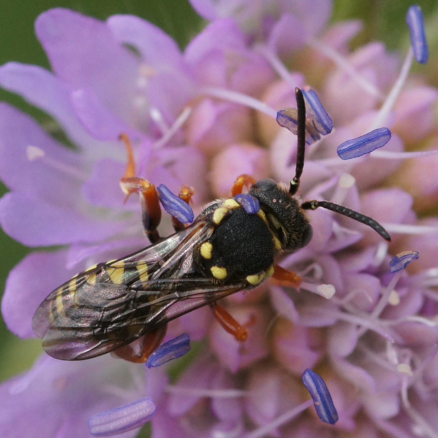 Nomada flavopicta (male). Picture taken in Skåne, Sweden.